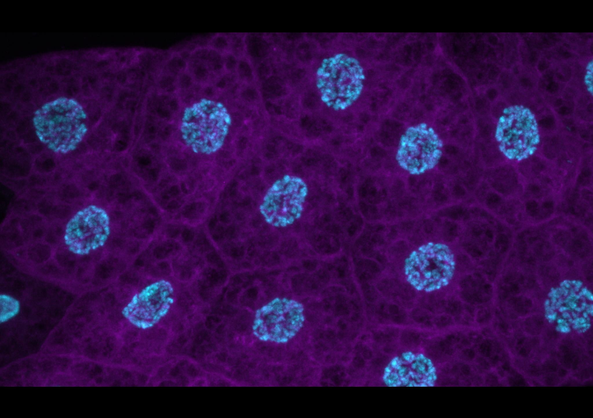 The fat body is a metabolically important organ in insects. Drosophila Cellular outlines are shown in violett and nuclei in light blue. Acquired with a Leica SP5 confocal microscope.